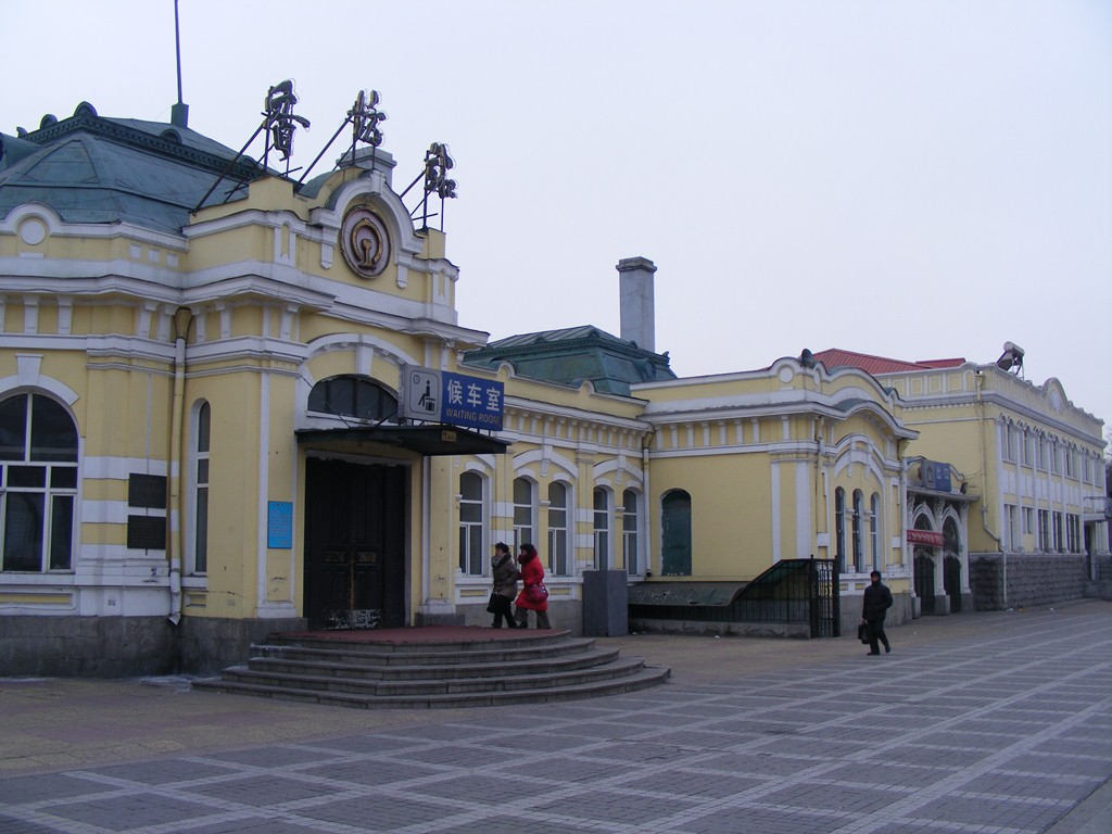 Xiangfang railway station, Harbin, China